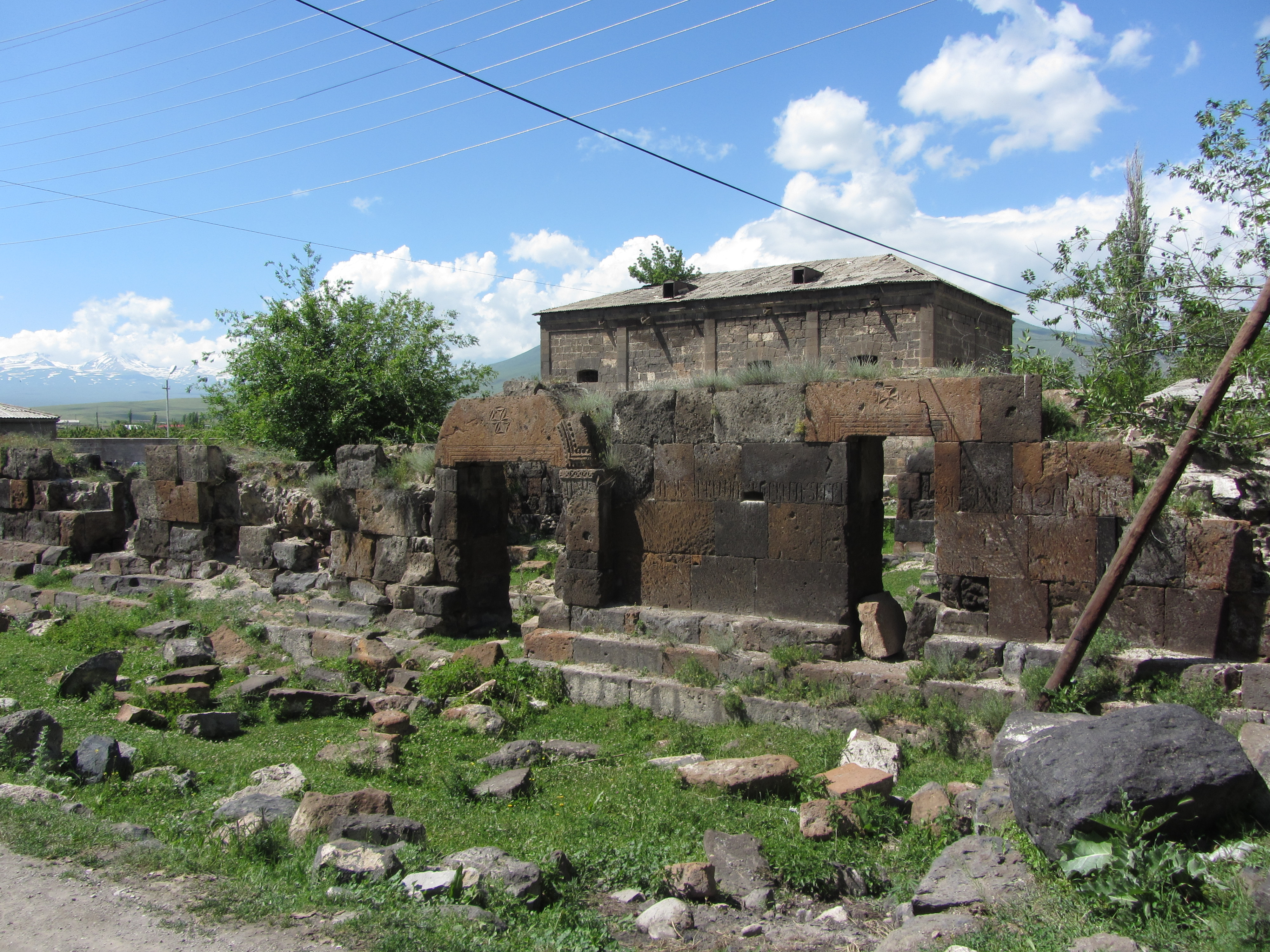 Ruined church 5c., rebuilded at 6-7c., three nave hall